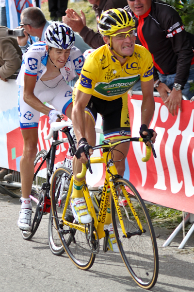 Thomas Voeckler et Arnold Jeannesson